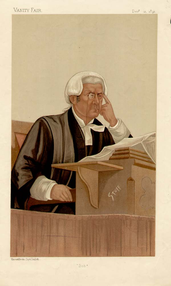 Caricature of The Hon Sir Robert Romer (1840-1918). Caption read "Bob".